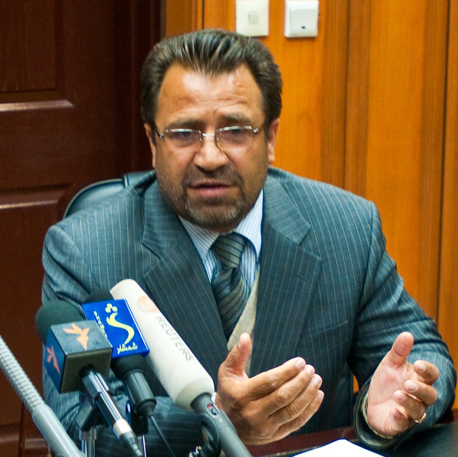 Mohammad Gulab Mangal, Governor of Helmand Province. (ISAF Public Affairs photo by US Air Force Staff Sgt. Nestor Cruz)